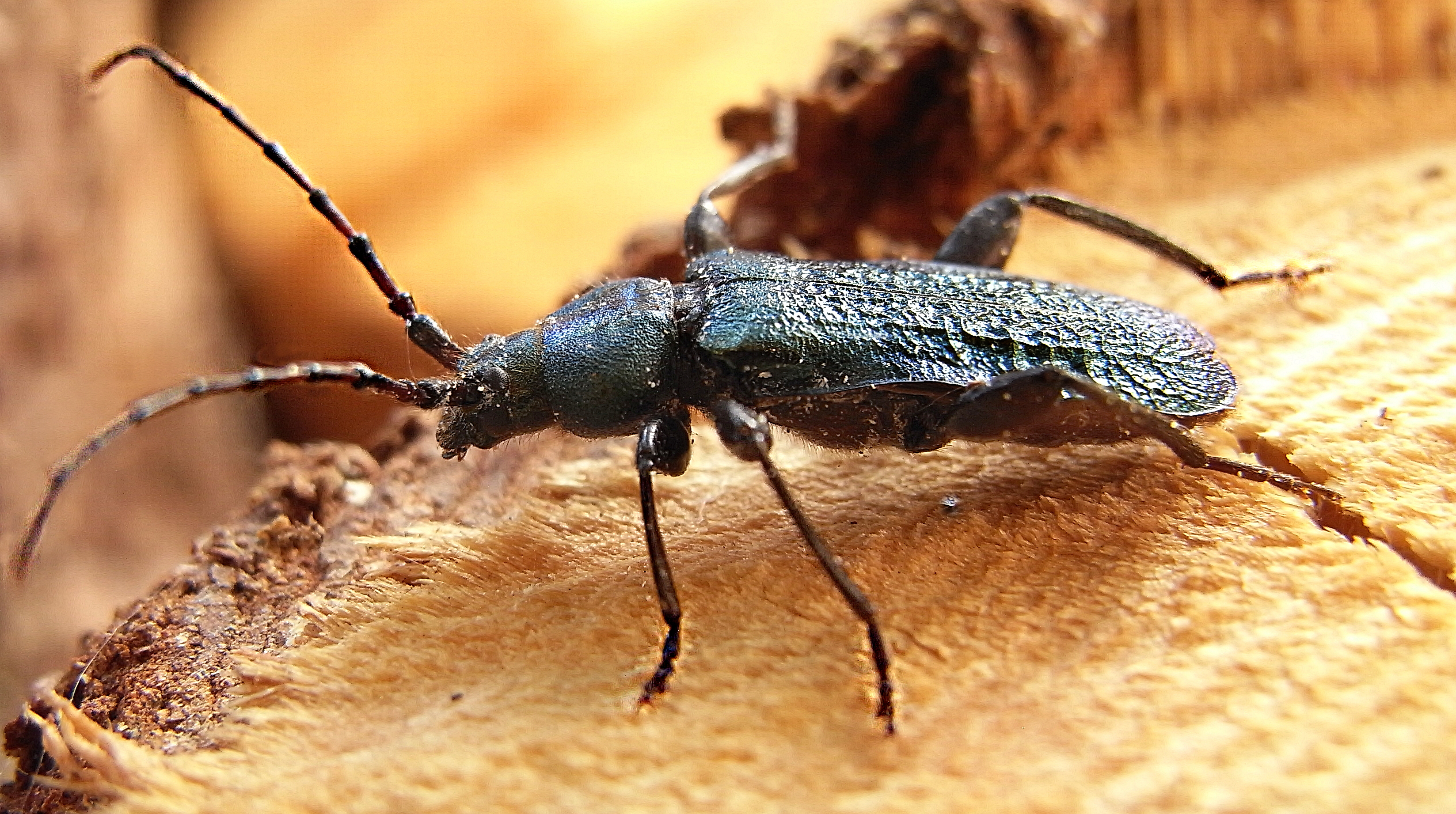 Callidium aeneum Ricoh R8